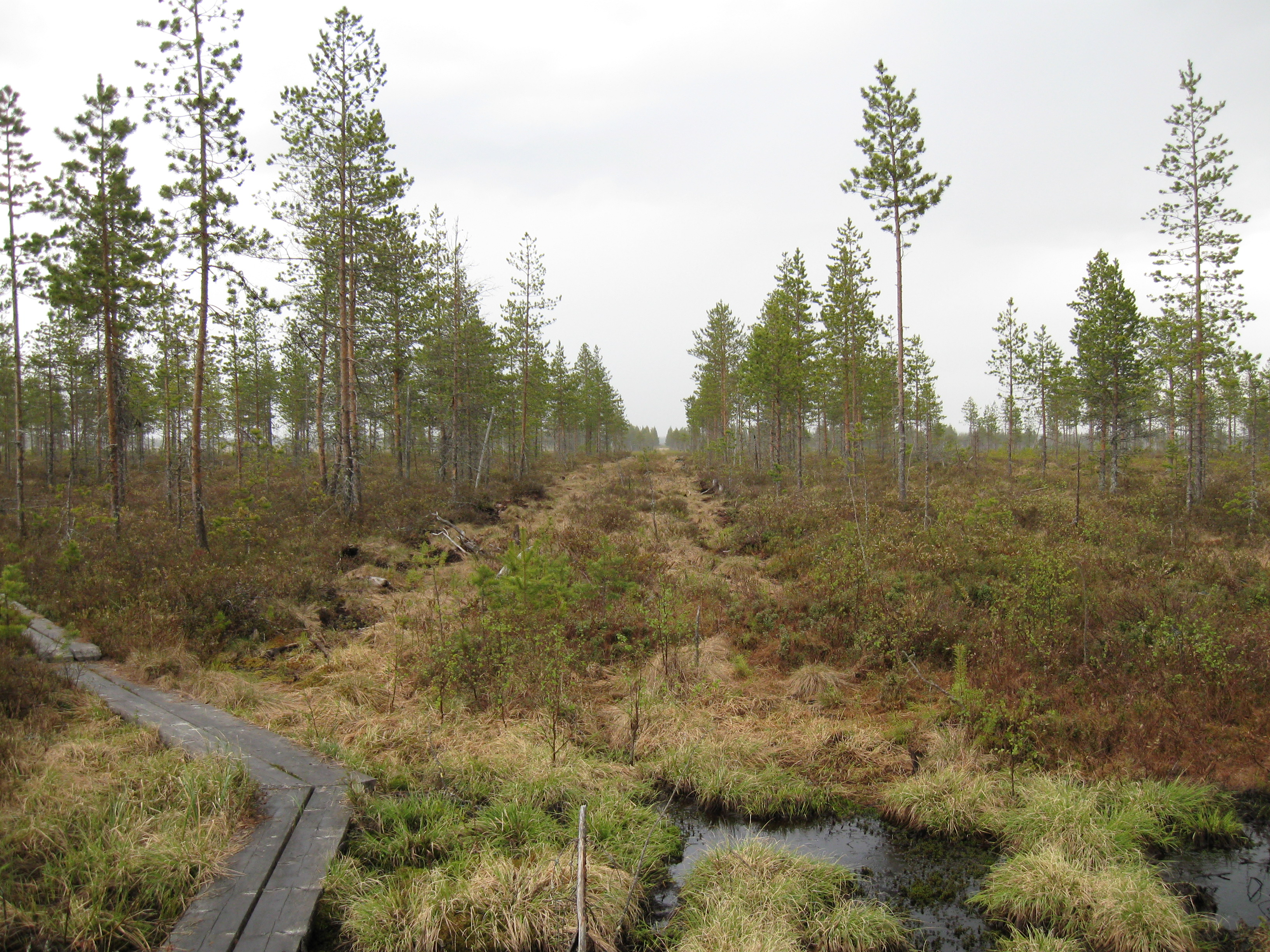 A former large forest ditch filled in the Olvassuo open bog in Utajärvi, Finland.